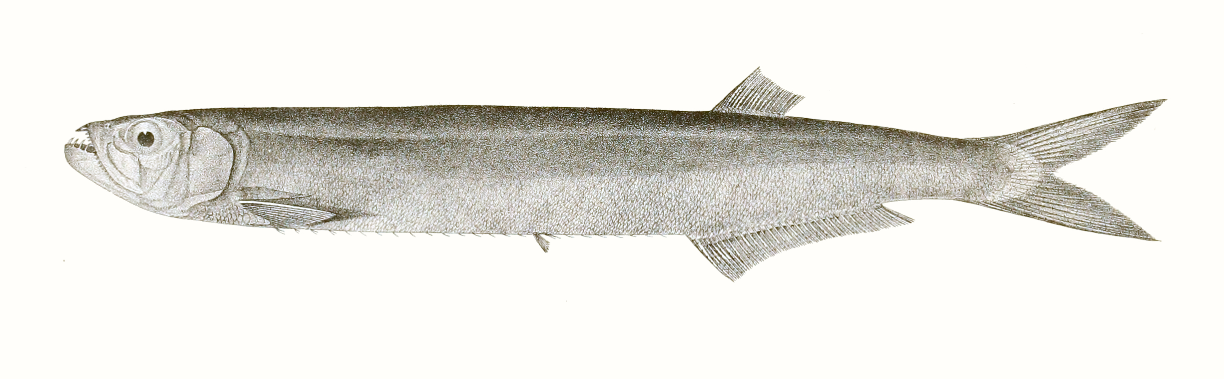 The species names / identity need verification - original names from plate are included here. The original plates showed the fishes facing right and have been flipped here. Chirocentrus dorab